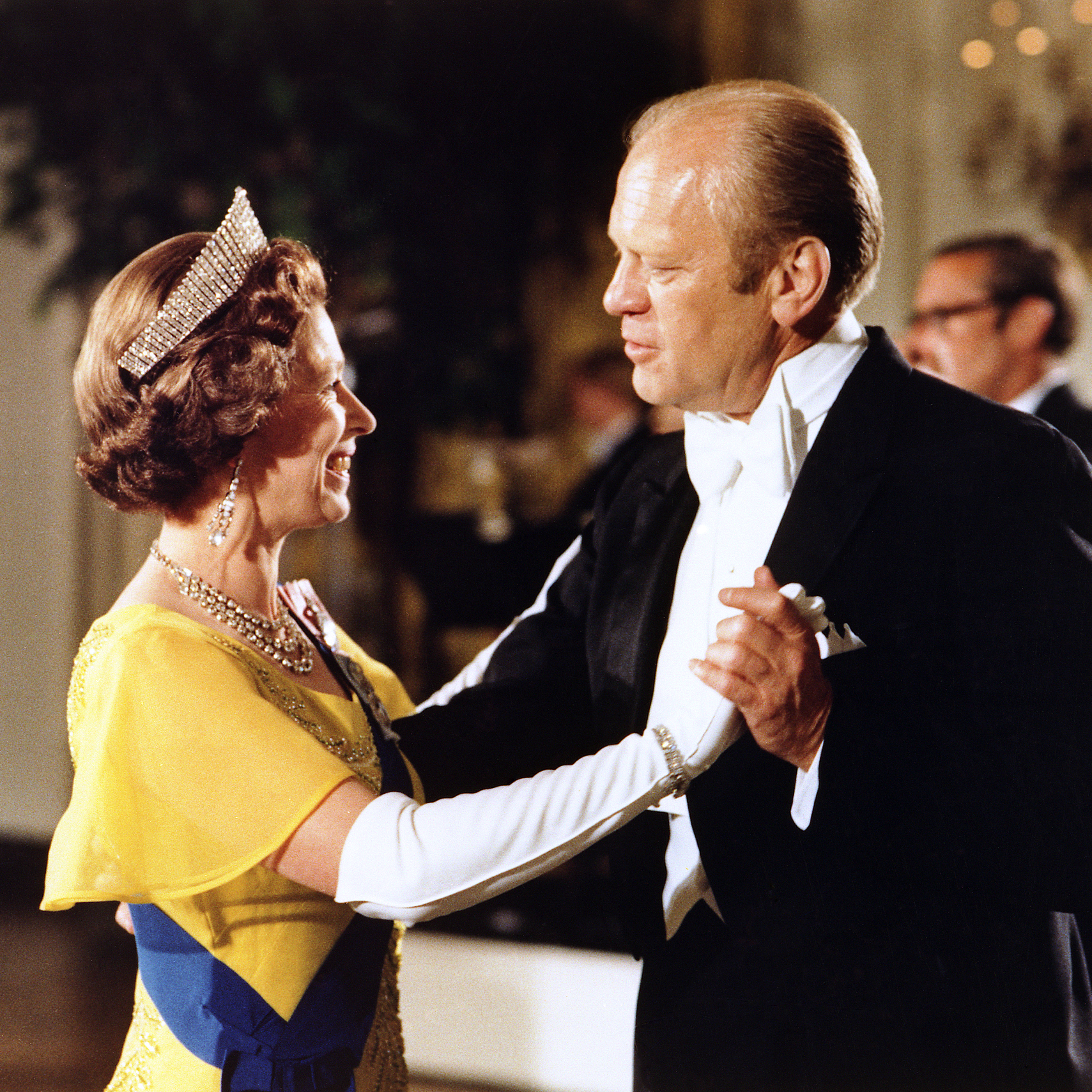 Queen Elizabeth II dancing with President Ford at the White House, Washington D.C., United States.